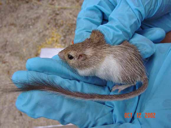 Spiny Pocket Mouse (Chaetodipus spinatus) - This is identified in the photo's alt text.